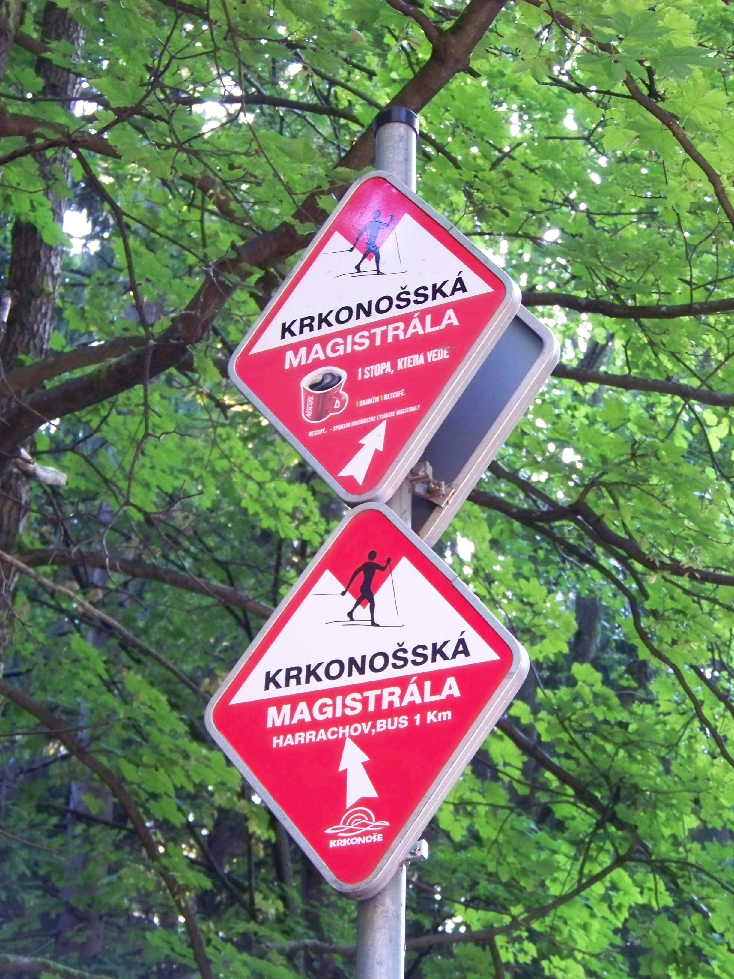 Harrachov, Semily District, Liberec Region, the Czech Republic. Skiing route signs near the Mumlavská bouda.